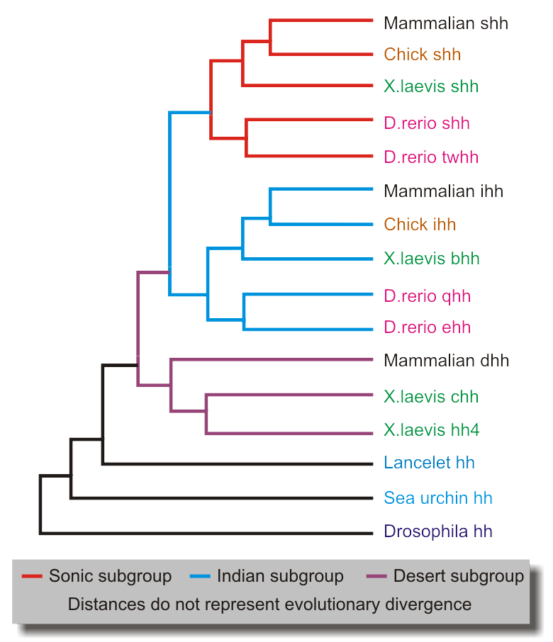 Evolution of hedgehog ligands, based on Template:Entrez Pubmed and data in NCBI databases